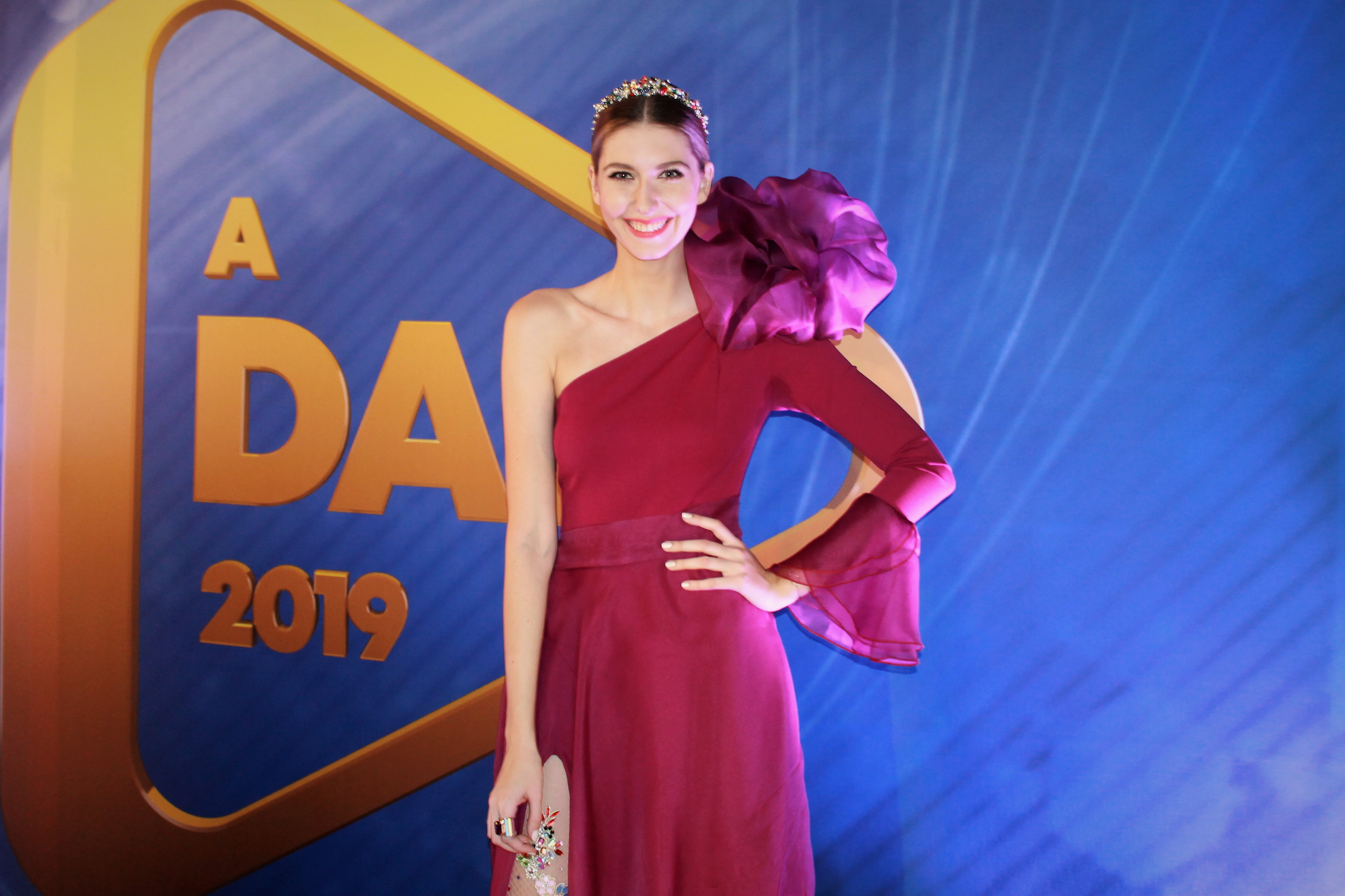 The female host of A Dal 2019: Bogi Dallos